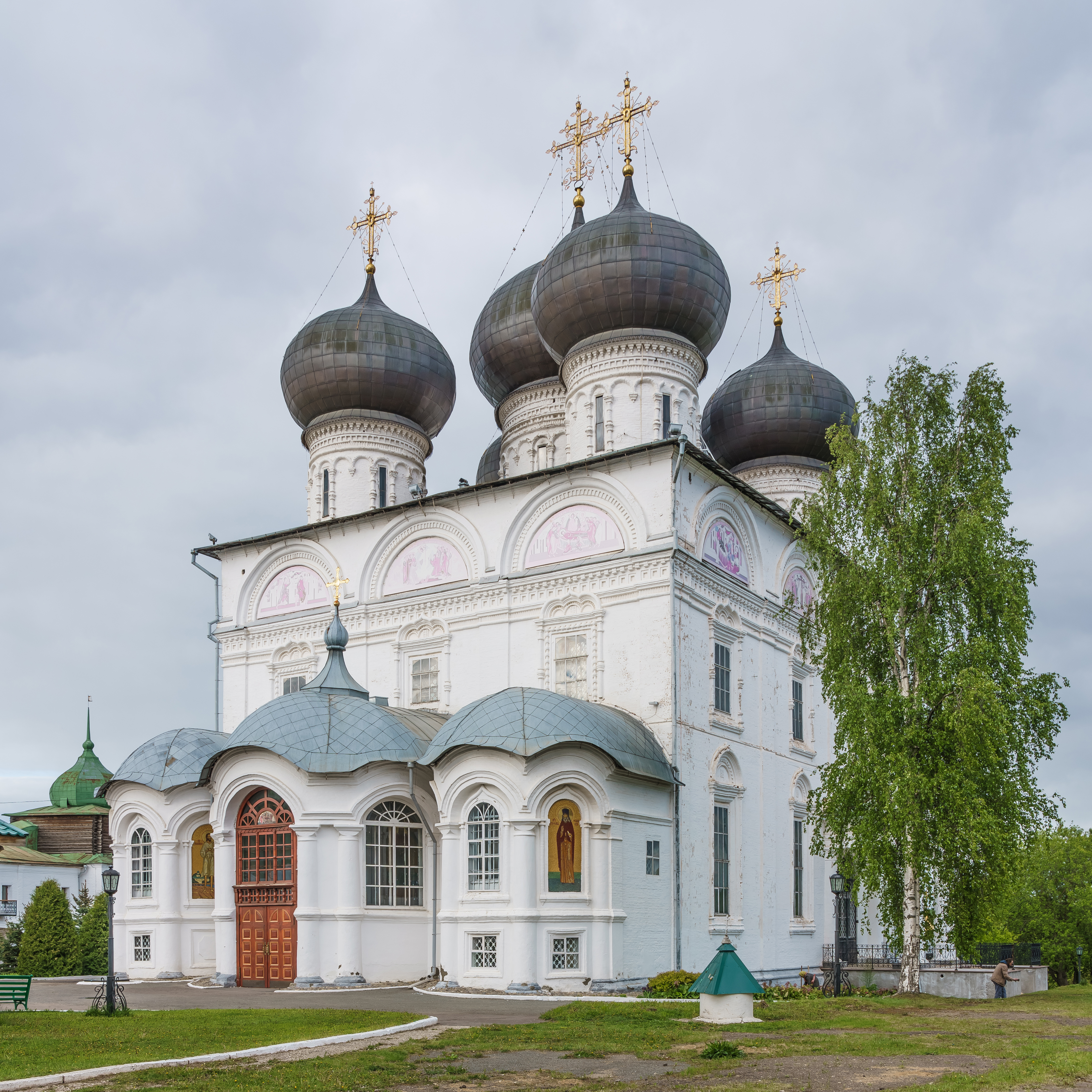 Trifonov Monastery in Kirov, Russia